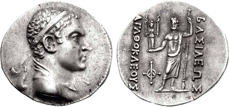 Coin of the Baktrian king Agathokles